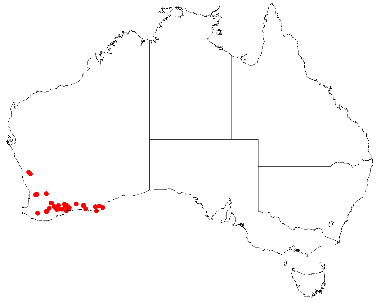 Allocasuarina acuaria occurrence data from Australasian Virtual Herbarium download 4 July 2018